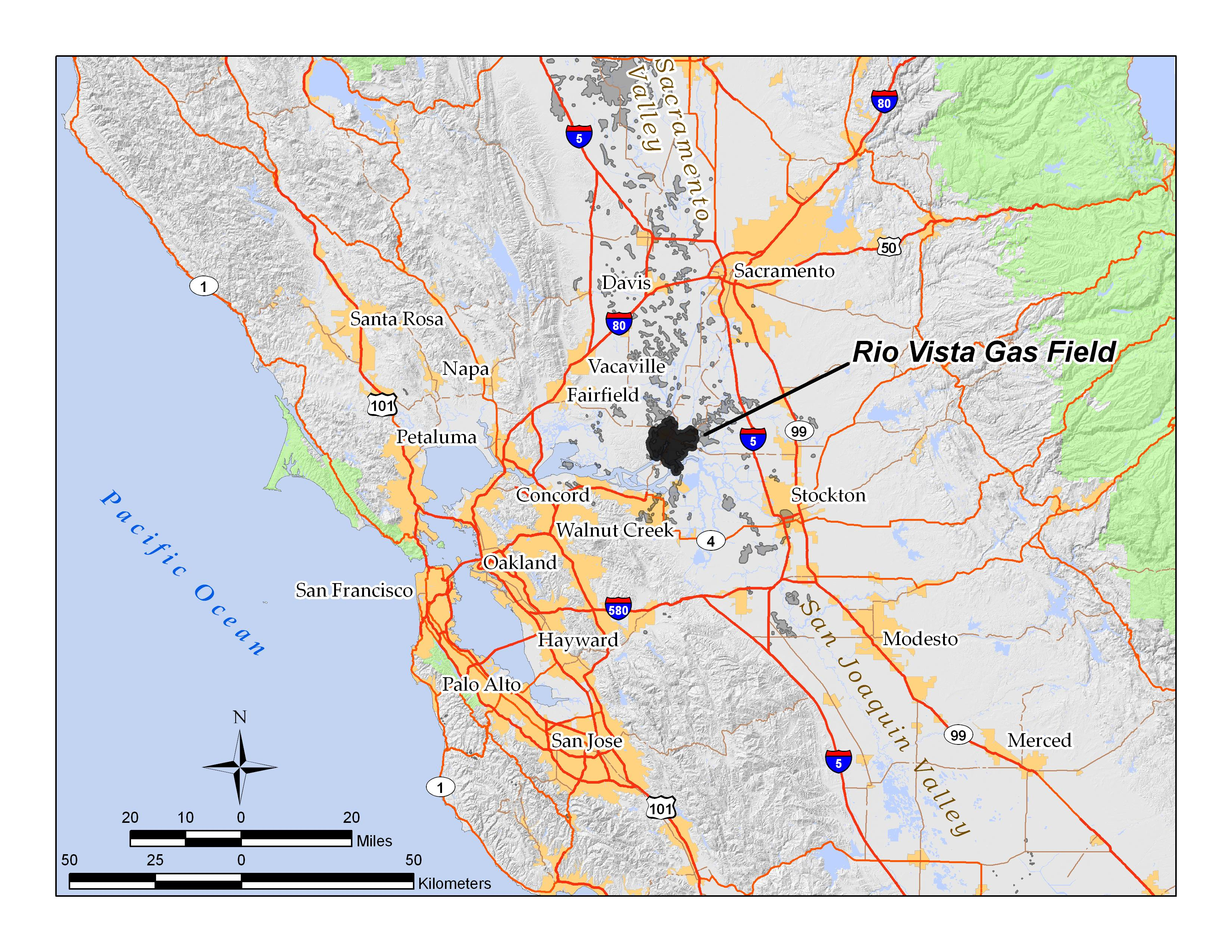 Rio Vista Gas field location map; by self in ArcGIS 9.3; all data shown is in the public domain